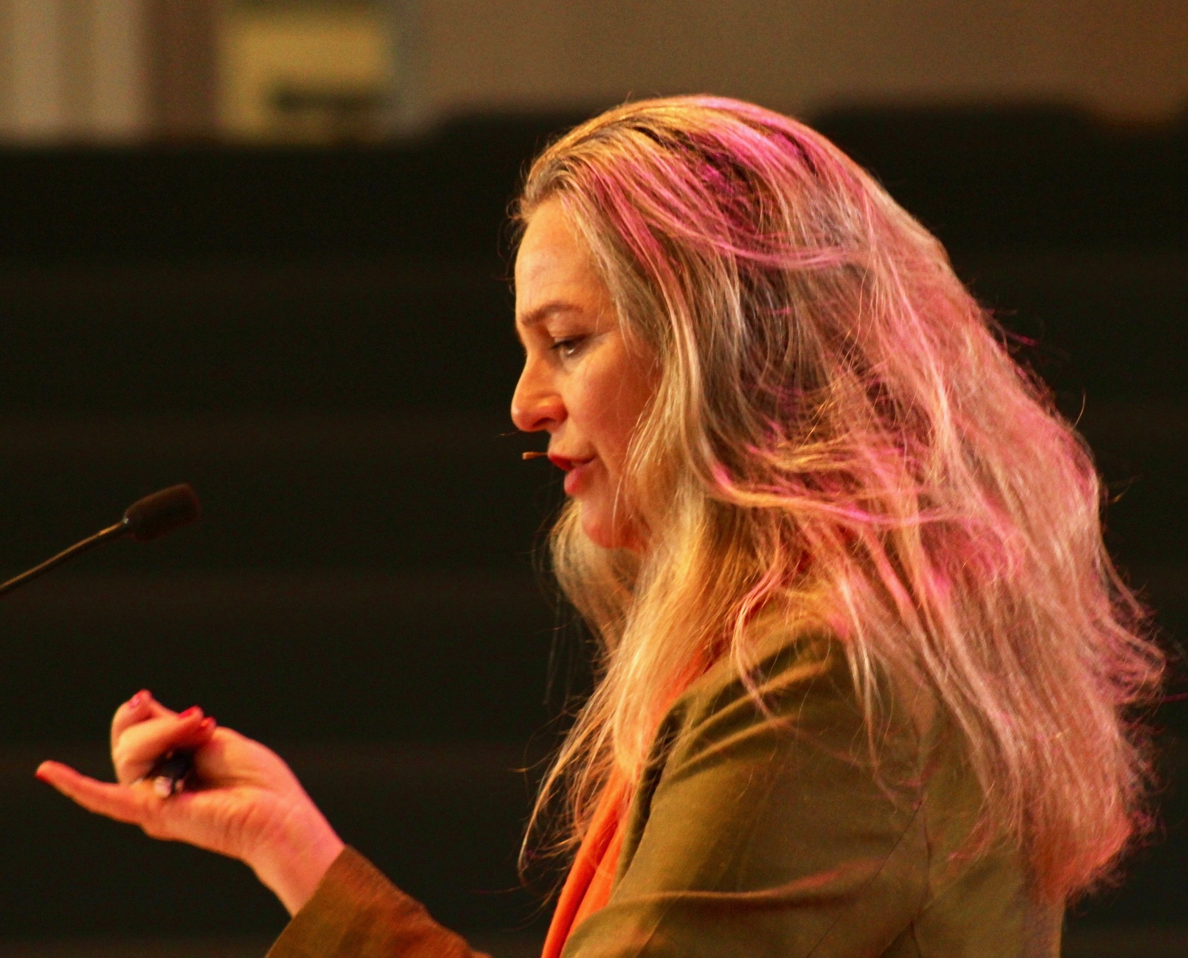 Julie Arliss, British teacher of philosophy of religion